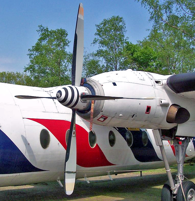 Rolls-Royce Dart turboprop engine on a Fokker F 27